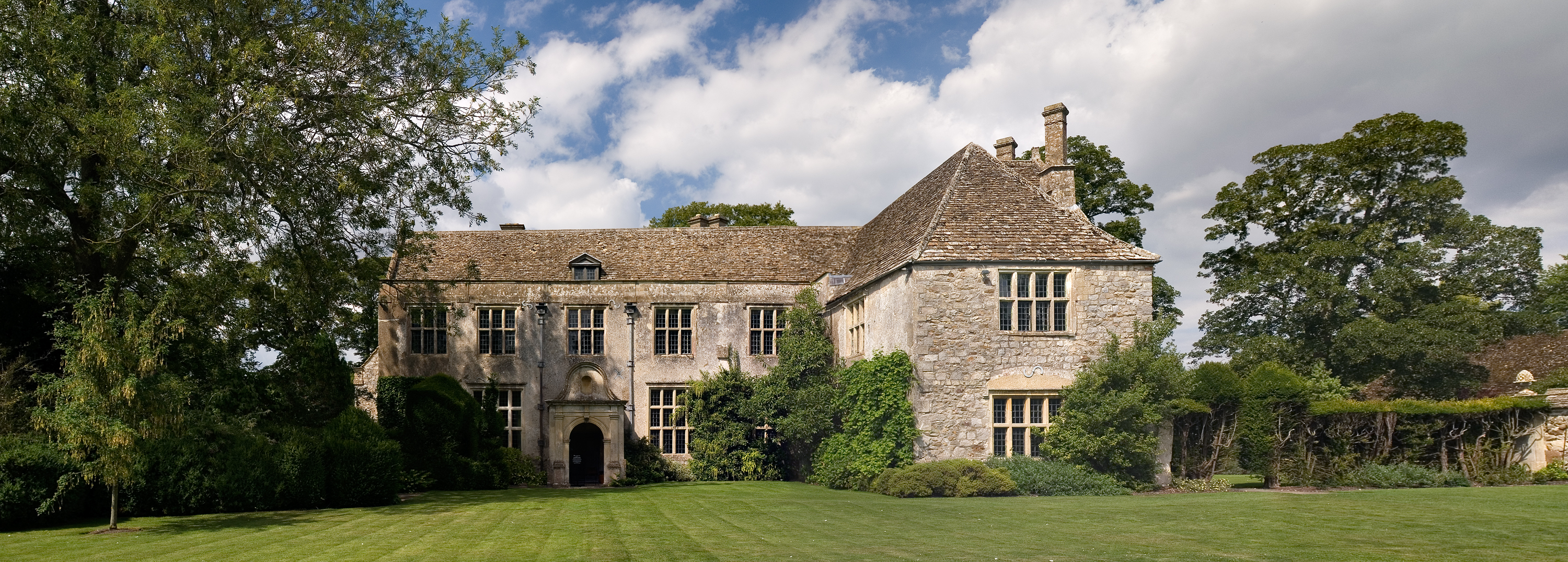 View of Avebury Manor from the south on a sunny summer day.